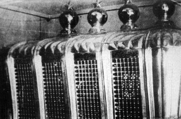 Baqi before demolition